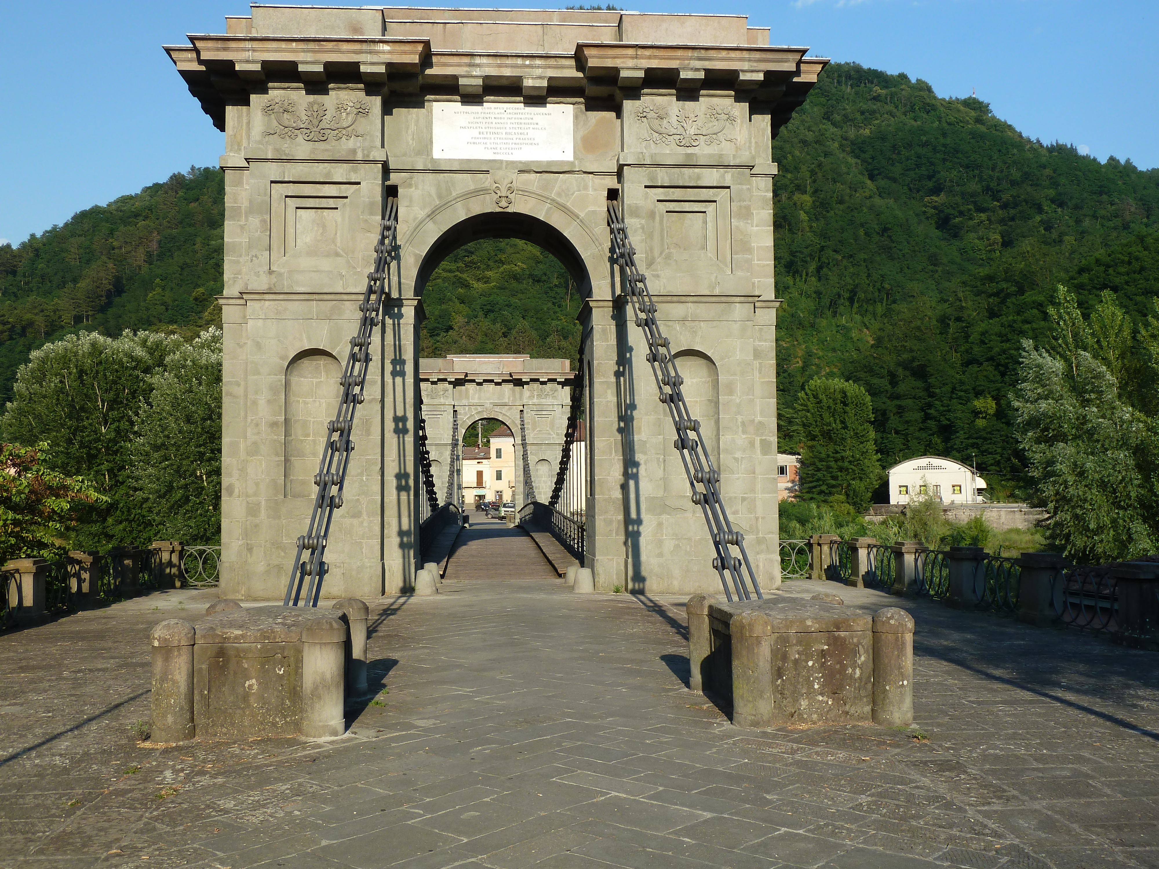 Ponte delle Catene (Fornoli), Bagni di Lucca, Italy June 2015